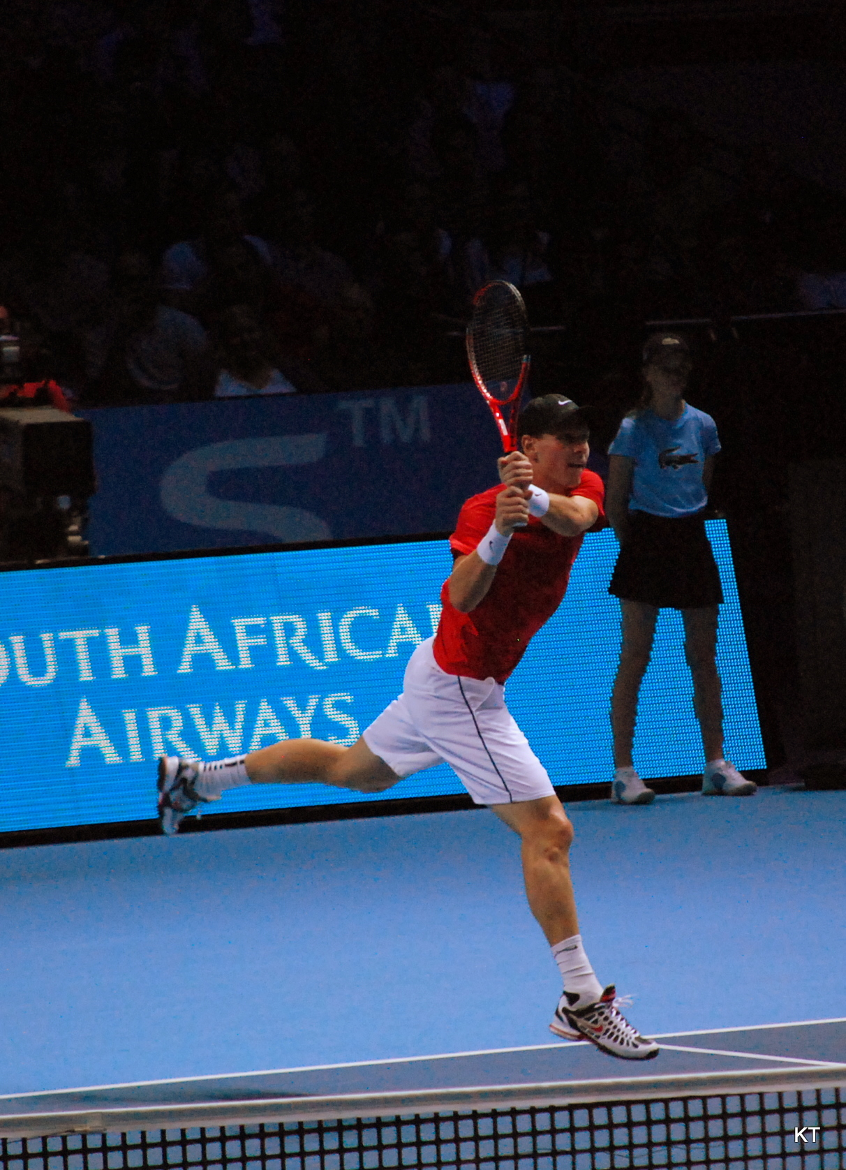 Novak Djokovic v Tomas Berdych, ATP World Tour Finals, the O2, London November 2011.